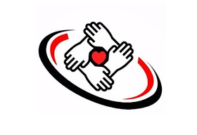 Flags of the city of Guaraciama, Minas Gerais, Brazil.